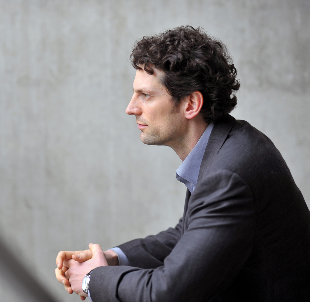 Aron Stiehl during the production of "Schlafes Bruder" at City Theater Klagenfurt 2008